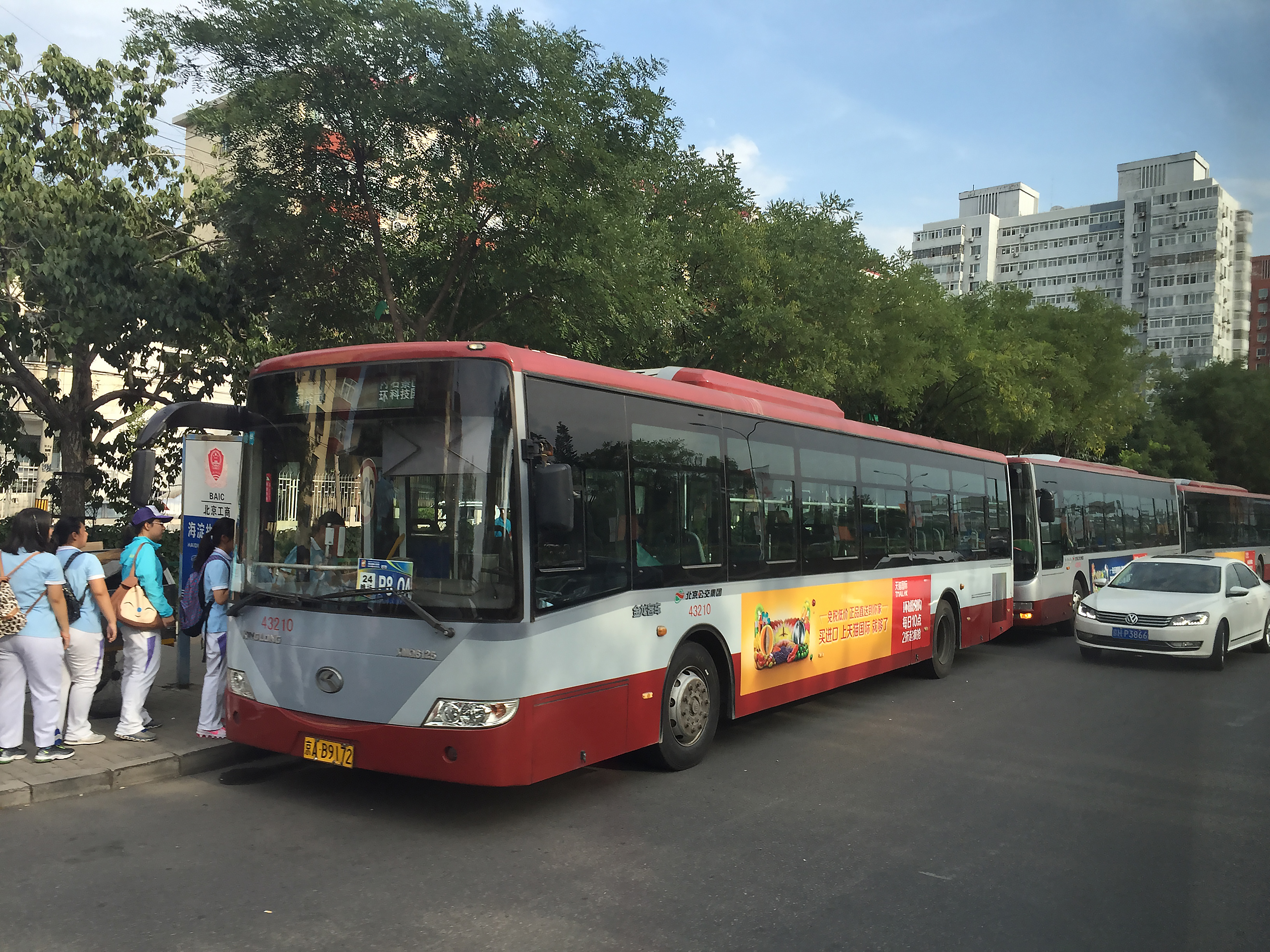 Chartered for Bayi High School students to attend a competition in the 2015 World Championships in Athletics. Interesting fleet number, eh?